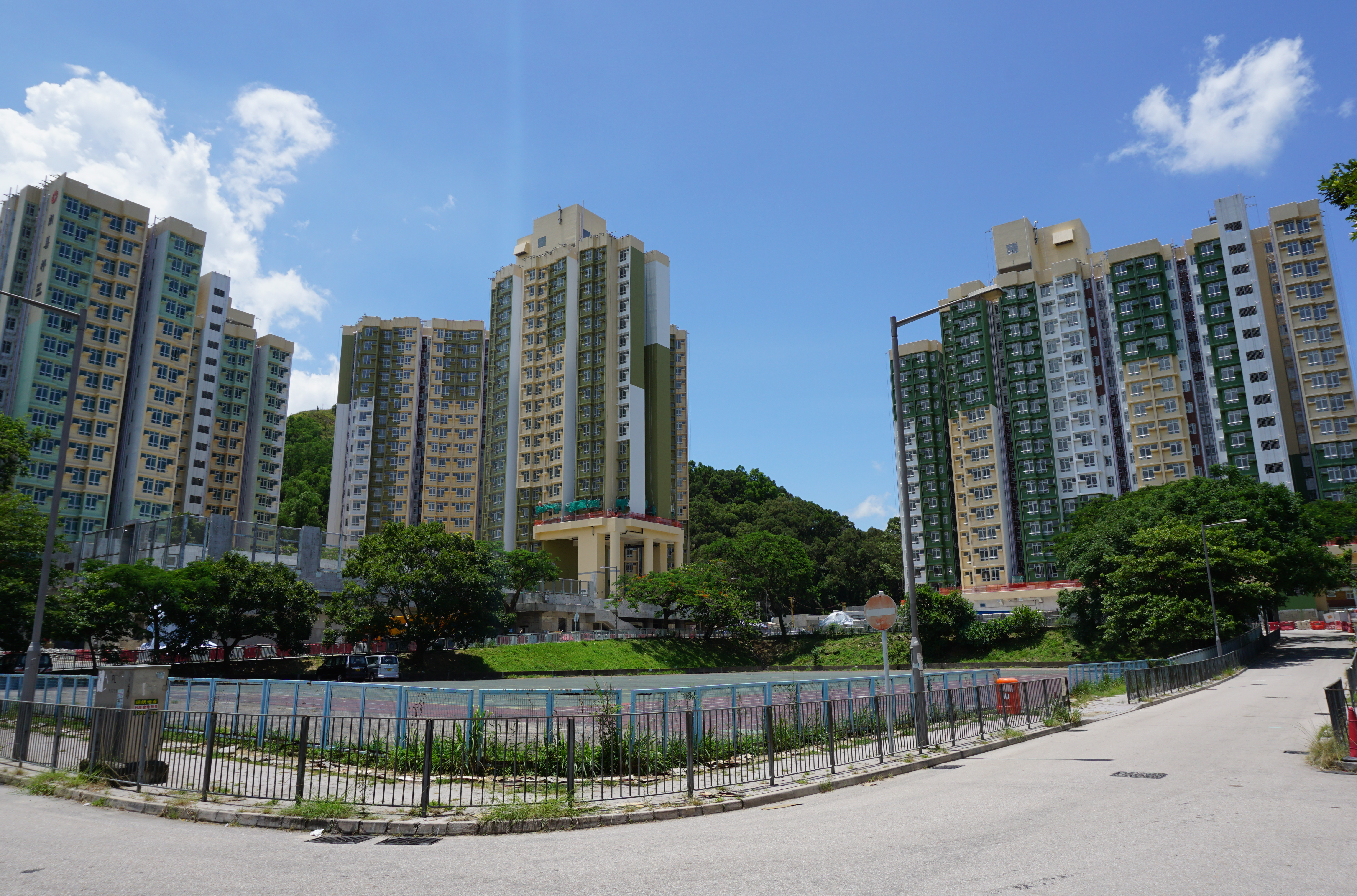 Long Shin Estate in Yuen Long, Hong Kong.